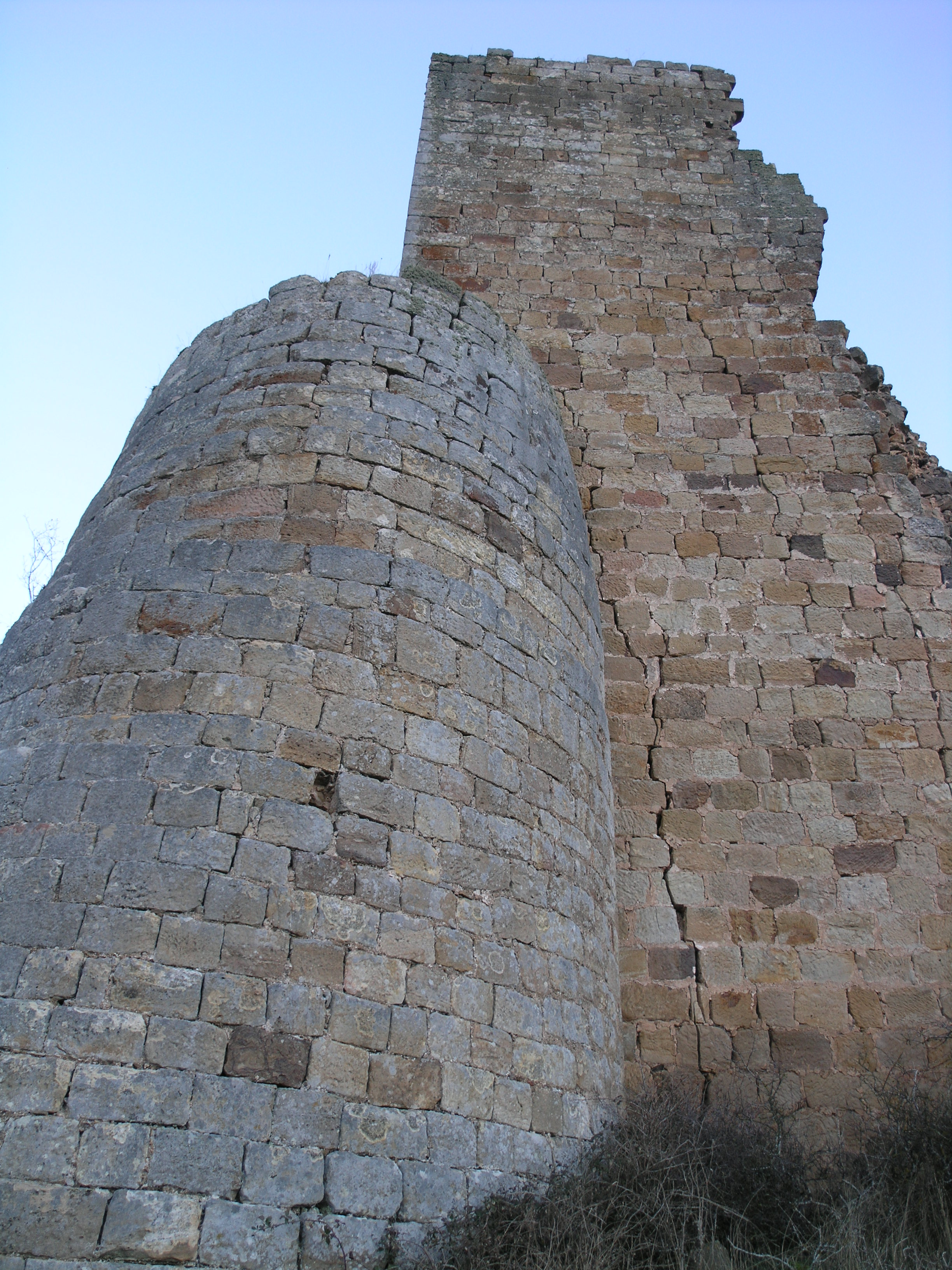 Ruerrero Tower (Valderredible, Cantabria, Spain), 14th-15th centuries. Square plan, 10 metres each side, and around 13 metres high. The south-western corner has collapsed. There's a buttress in the north-western corner, as a round turret 5 metres high.